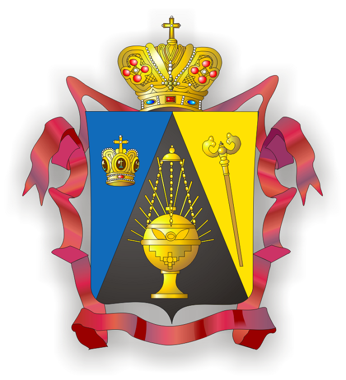 CoA of Nikolaev 1789